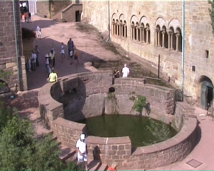 Wartburg - well in the inner yard